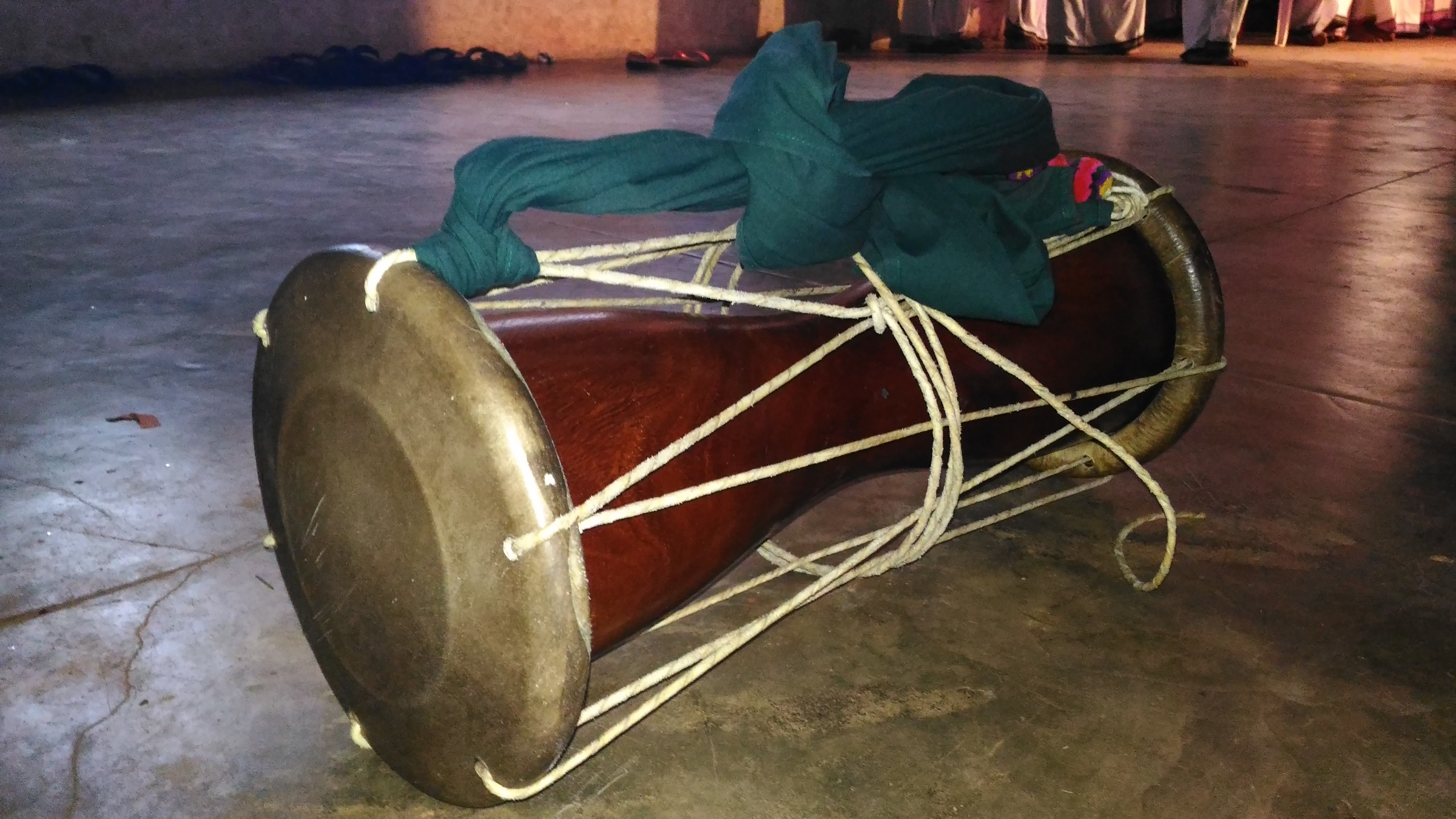 Timila, a musical instrument.